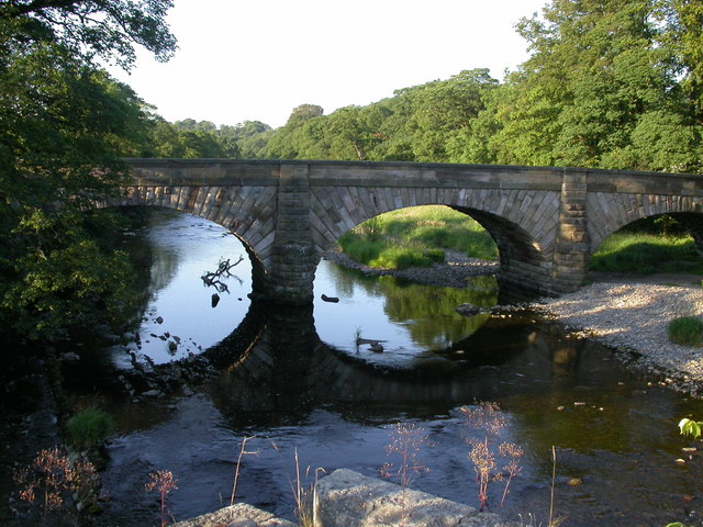 Lower Hodder Bridge